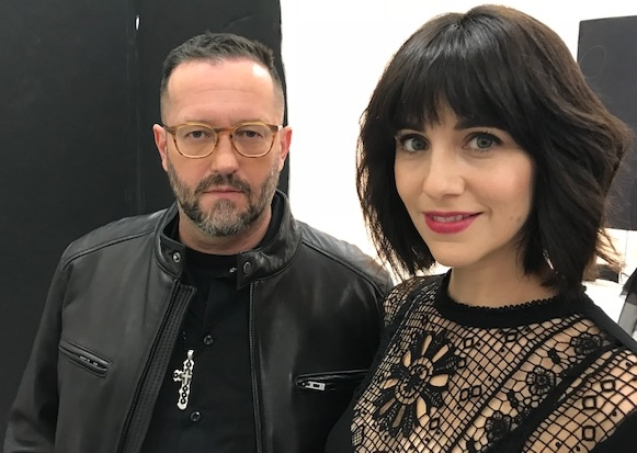 Montana in 2017 with Erika Rosenbaum at Variety "Justice League" shoot